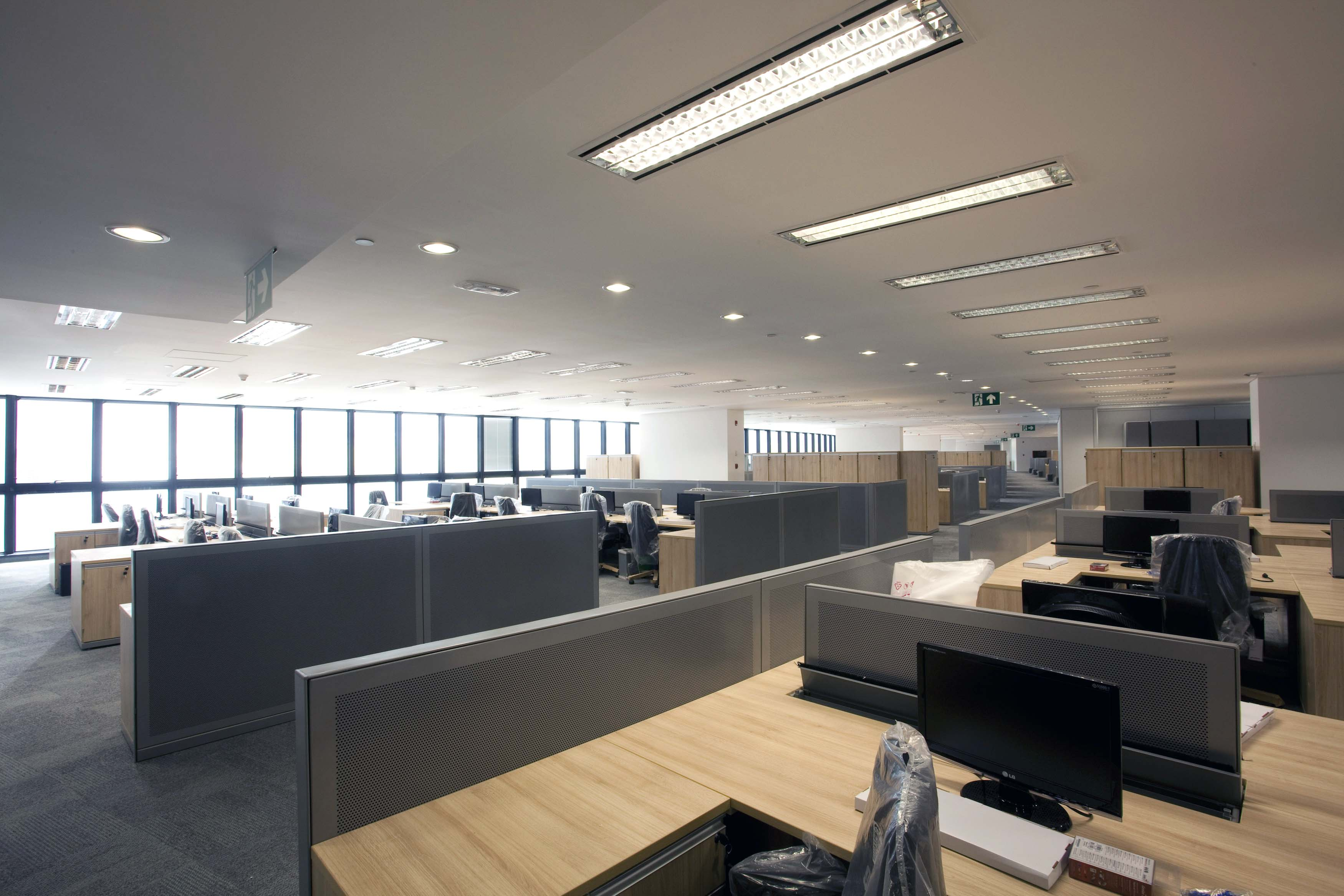 Visão interna das secretarias.